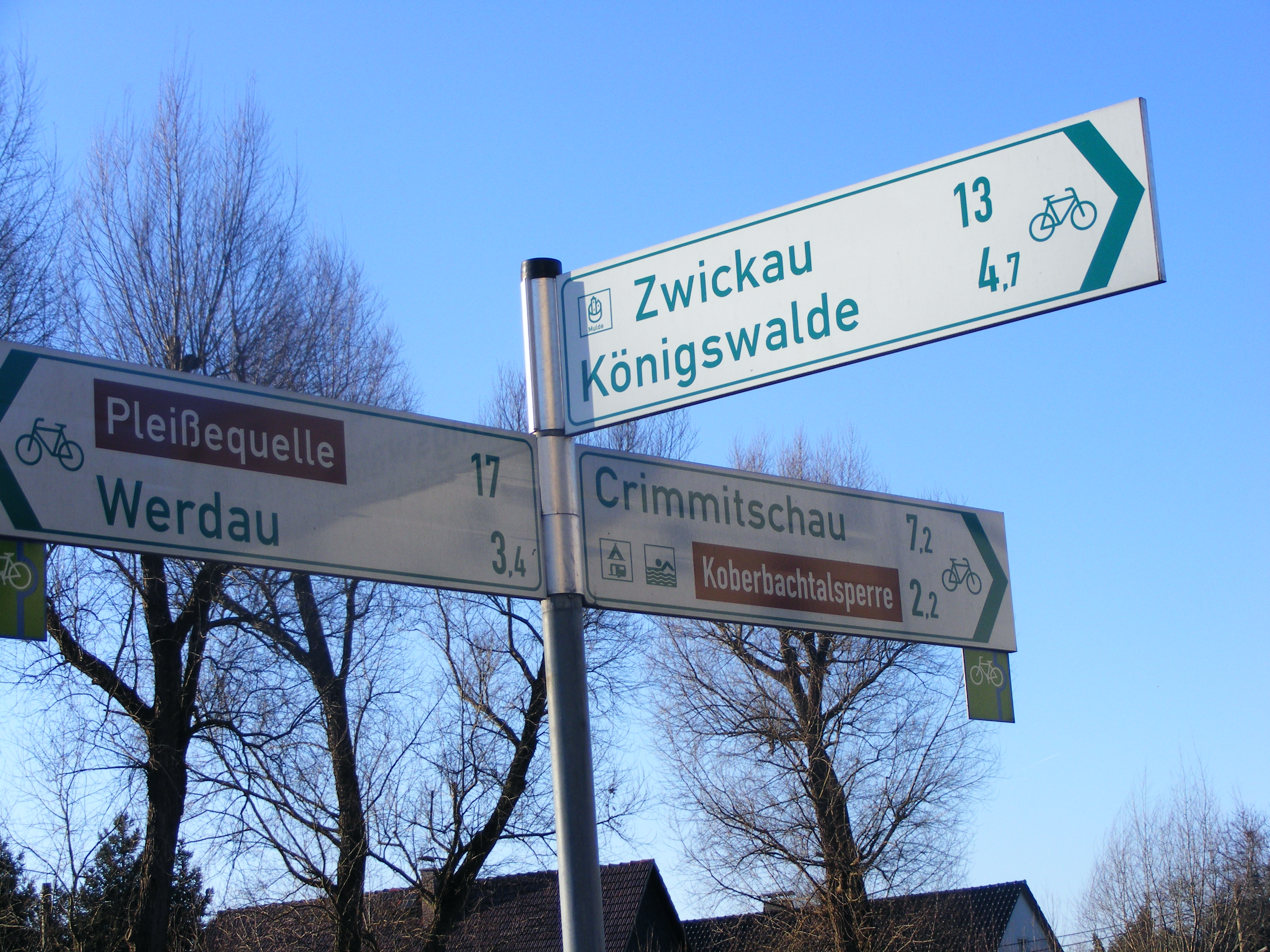 "Langenhessen",Signpost on the cycle path "Pleisse Radweg"